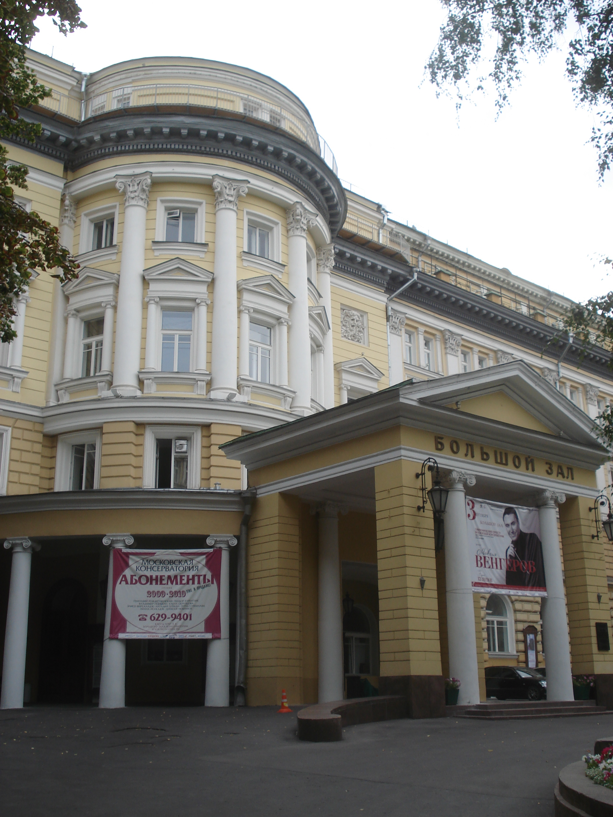 Moscow Conservatory, Bolshoi Hall.